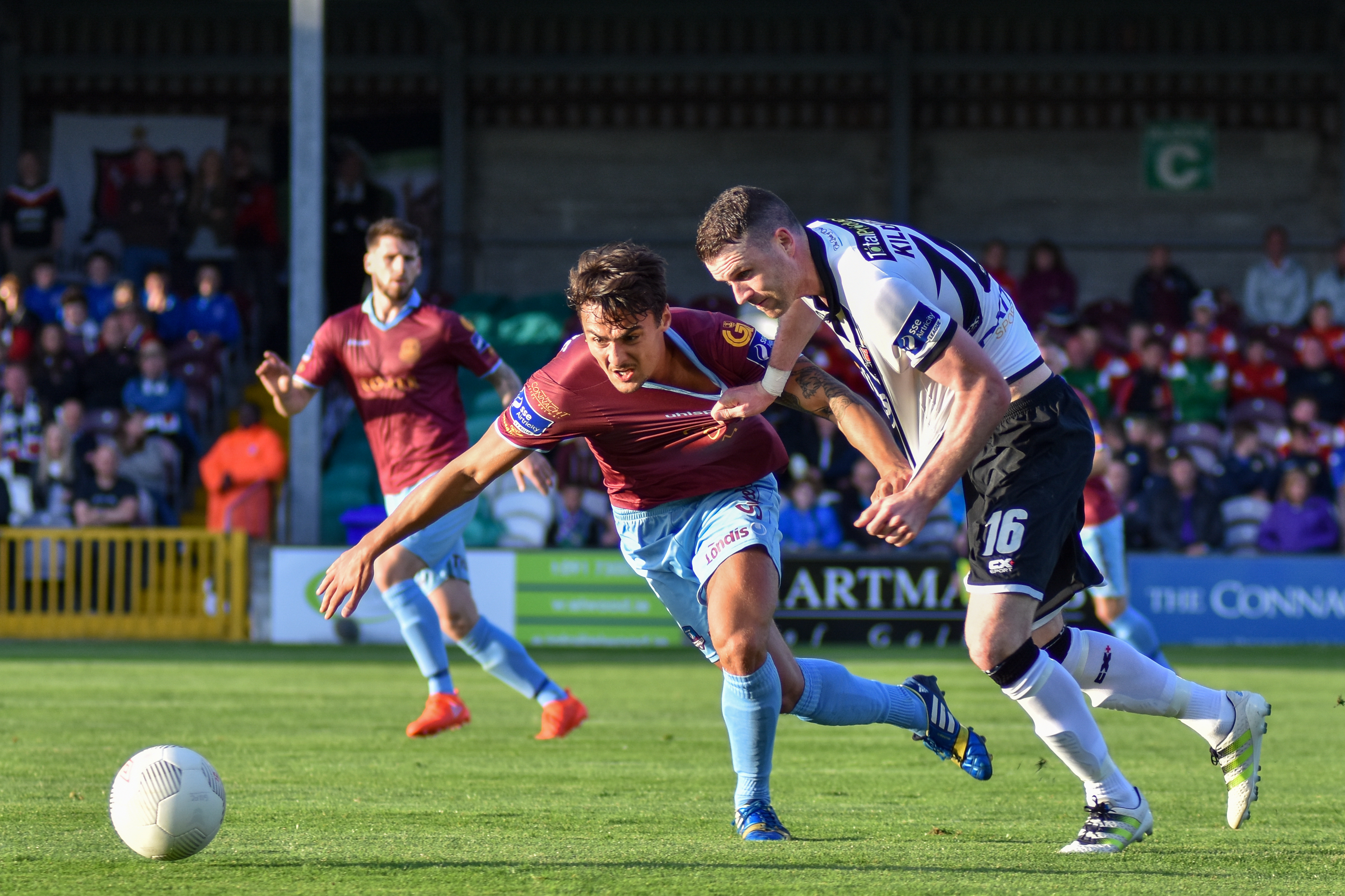 Armin Aganovic of Galway United and Ciarán Kilduff of Dundalk in action in the 2016 League of Ireland